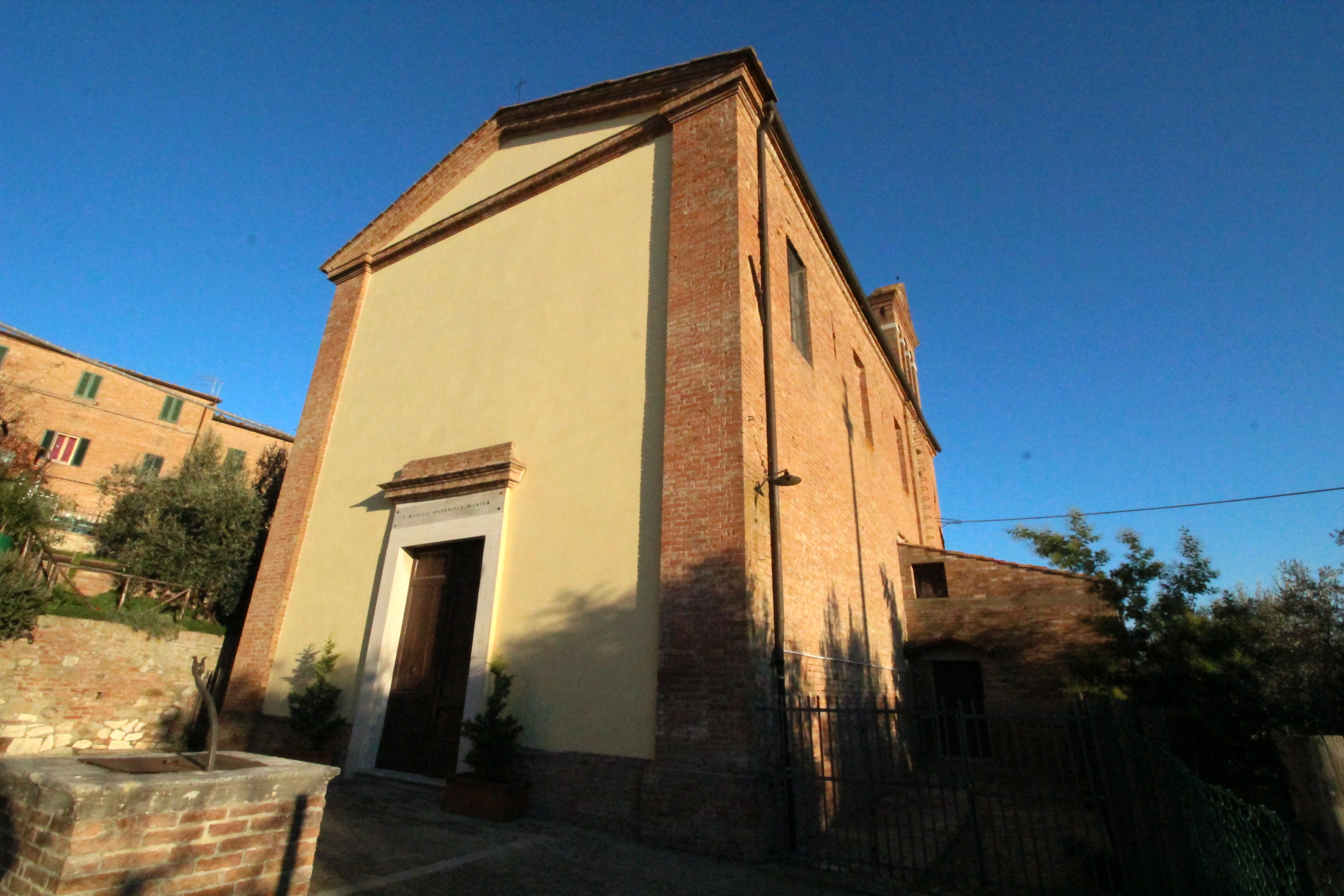 Church San Michele Arcangelo, Chiusure, hamlet of Asciano, Province of Siena, Tuscany, Italy